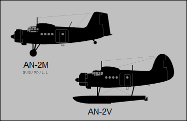 Side silhouette view of An-2M and An-2V aircraft.